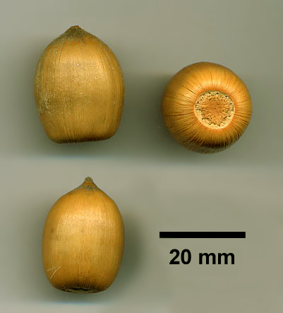 Notholithocarpus densiflorus acorns